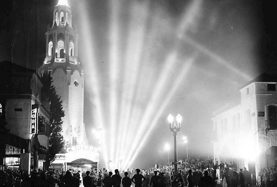 Photo of the premiere of Captains Courageous at the Carthay Circle Theatre in Los Angeles in 1937.